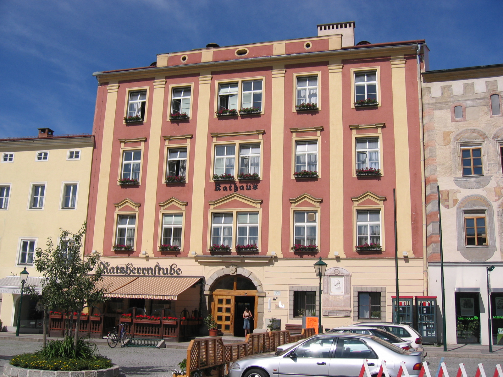 The town hall on the Main square in Freistadt